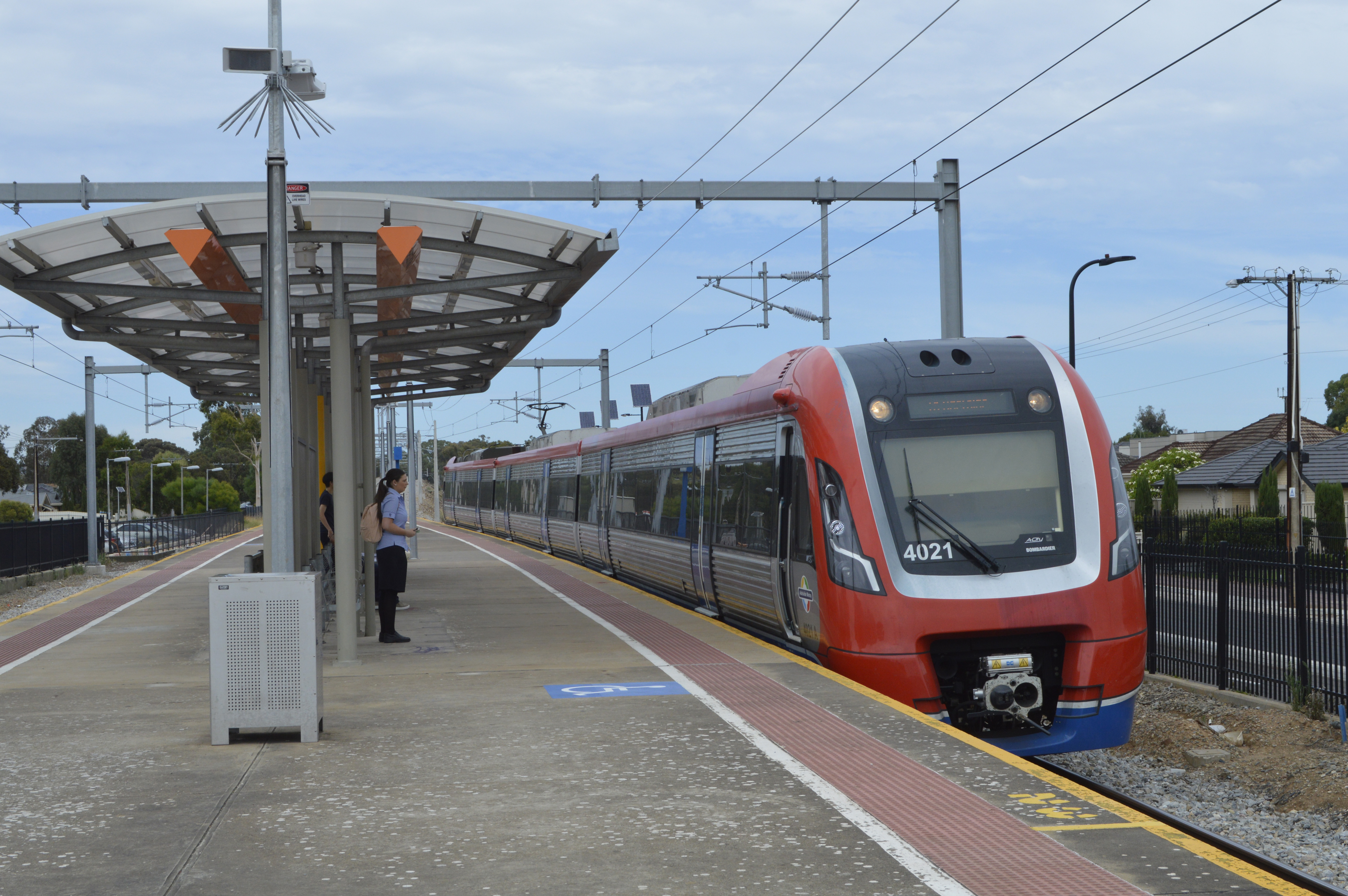 Ascot Park station in January 2018 with a 4000 series EMU.